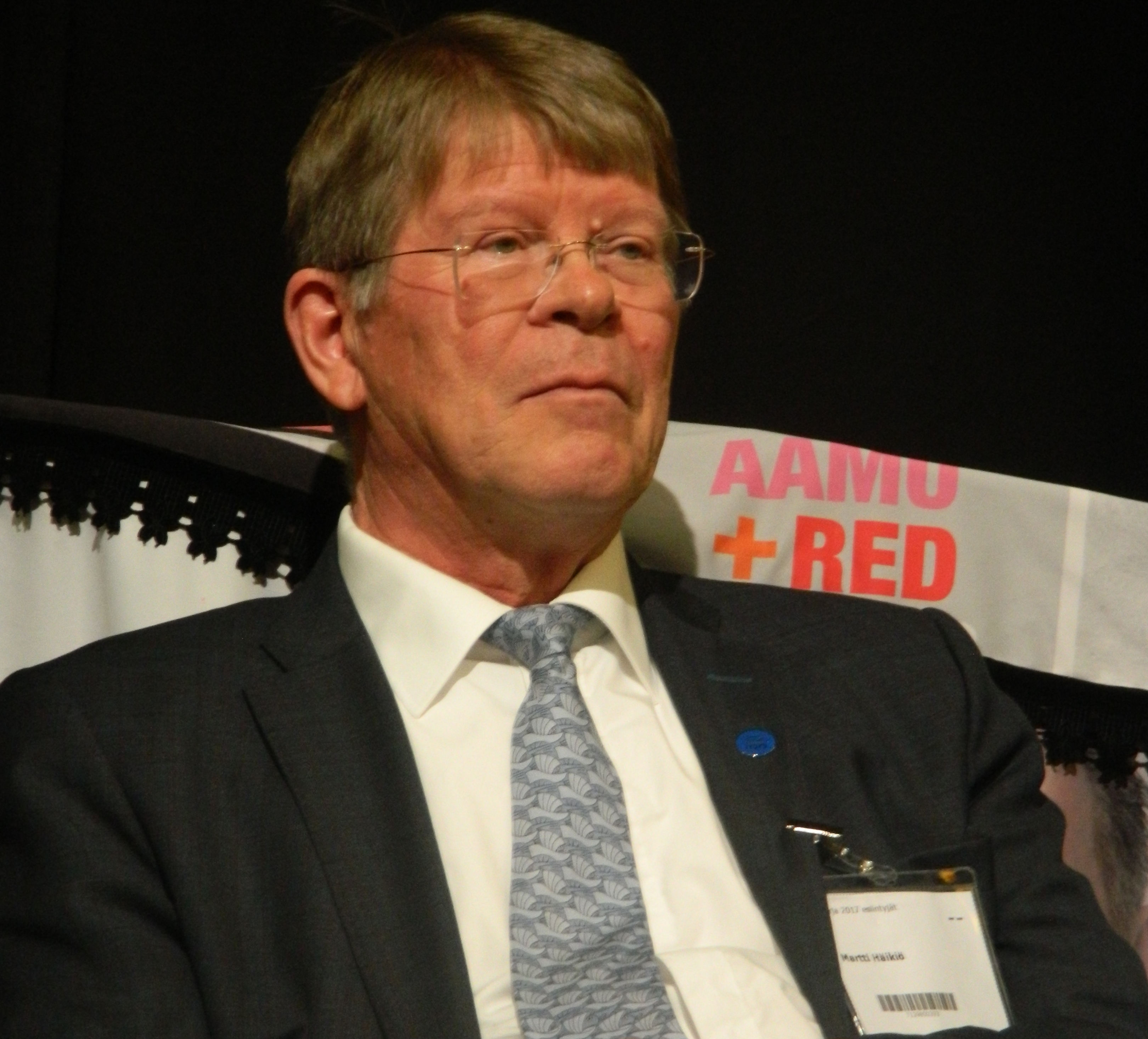 Martti Häikiö at Helsinki Book Fair, 2017